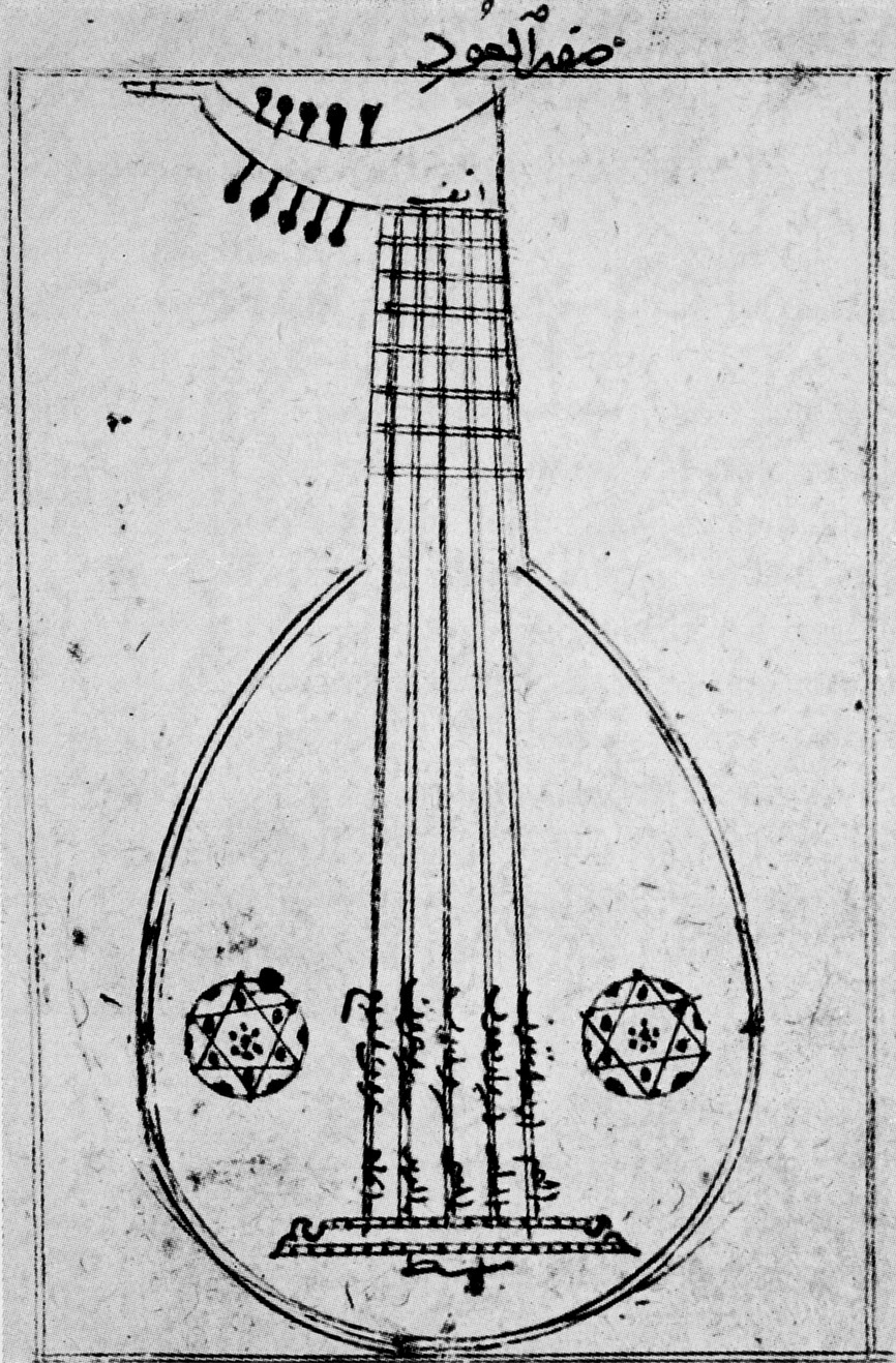 Lute drawing by Safi al-Din, from his book Kitab al-adwar, this copy from 1333-34. al-Safi wrote to the book by 1233.